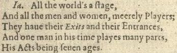 The lines "All the world's a stage / And all the men and women, meerely Players; / They haue their Exits and their Entrances, / And one man in his time playes many parts, / His Acts being seuen ages. [...]", from William Shakespeare's play As You Like It (believed to have been written in 1599), Act II, Scene VII, first published in William Shakespeare (1623) Mr. William Shakespeares Comedies, Histories, & Tragedies: Published According to the True Originall Copies, London: Printed by Isaac Iaggard, and Ed[ward] Blount, p. 194 OCLC: 606515358.